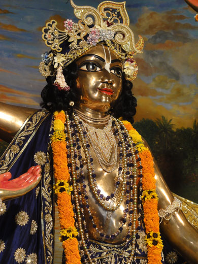 Murti of Nityananda, ISKCON Mayapur